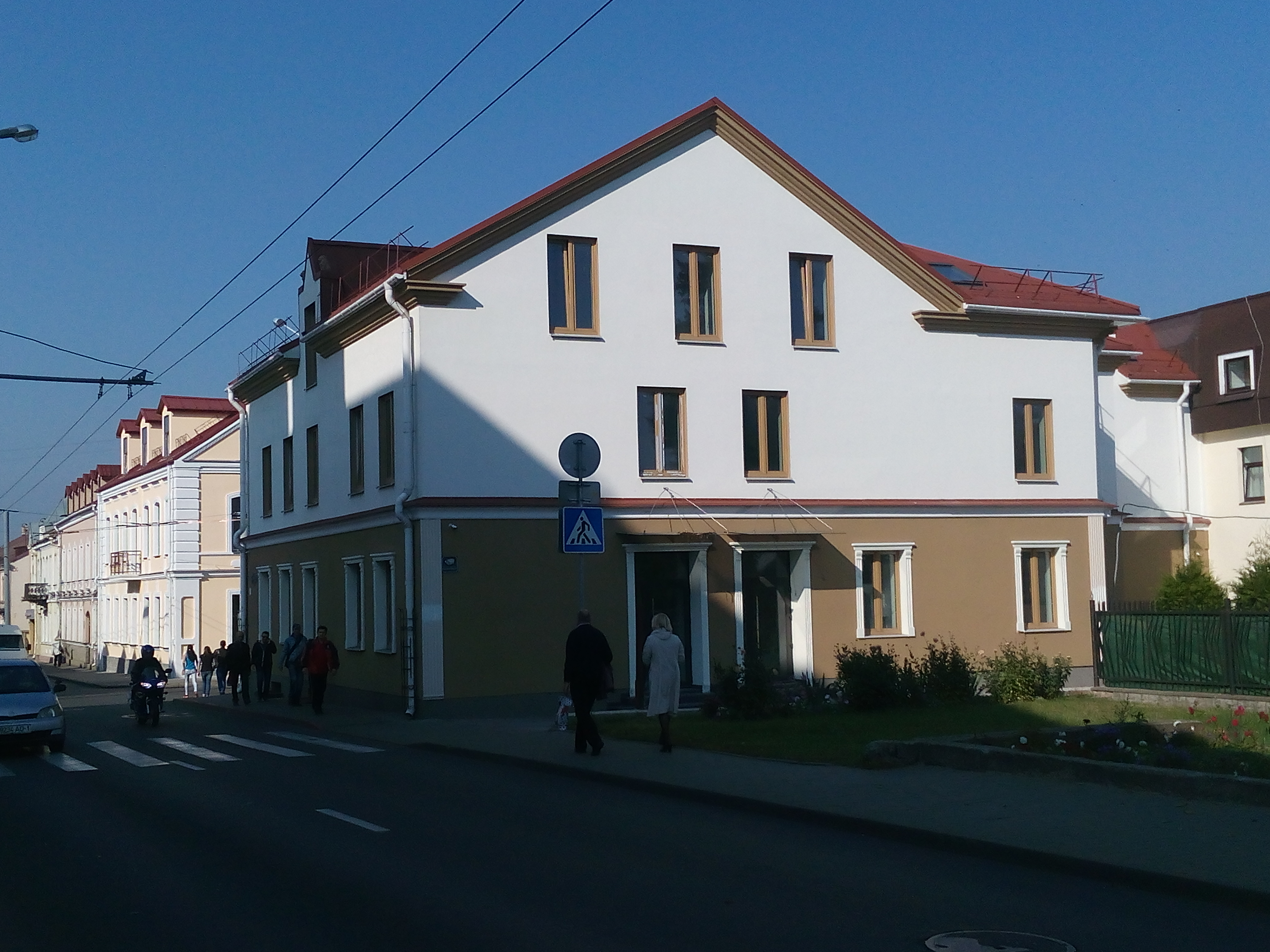 The building on Karl Marx Street, 24, Grodno, as of October 2016